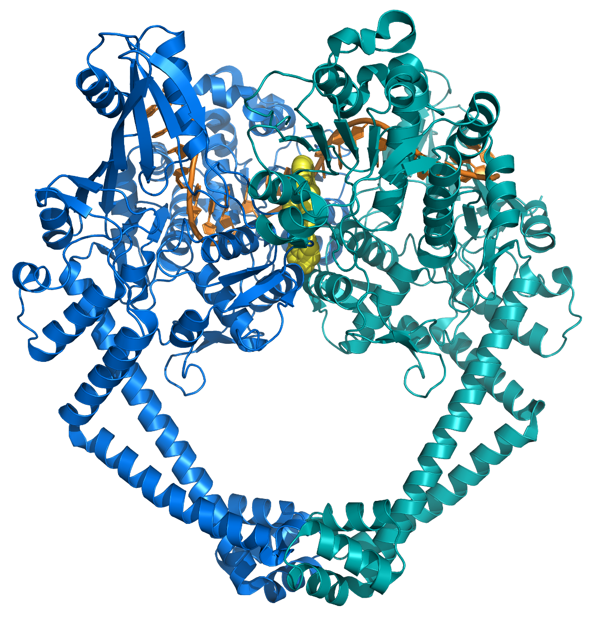 Cartoon representation of GSK 299423 (yellow) in complex with Staphylococcus aureus DNA gyrase (teal) and a DNA fragment (orange).Created using Accelrys DS Visualizer Pro 1.7 and GIMP. Optimized with OptiPNG.